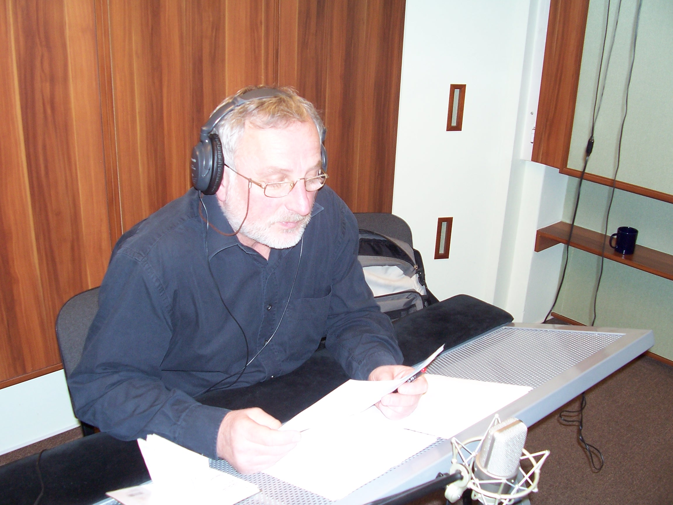 Czech actor Miloslav Mejzlík in dub studio.